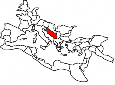 Map of Illyricum.